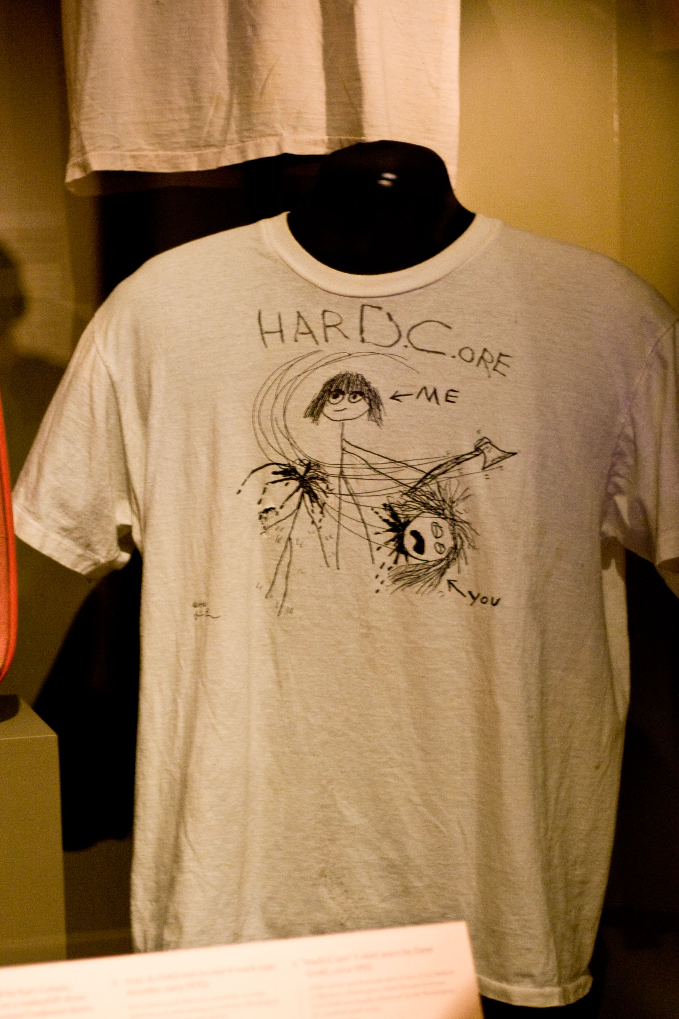 Kurt Cobain's Hard Core T-shirt, EMP Museum